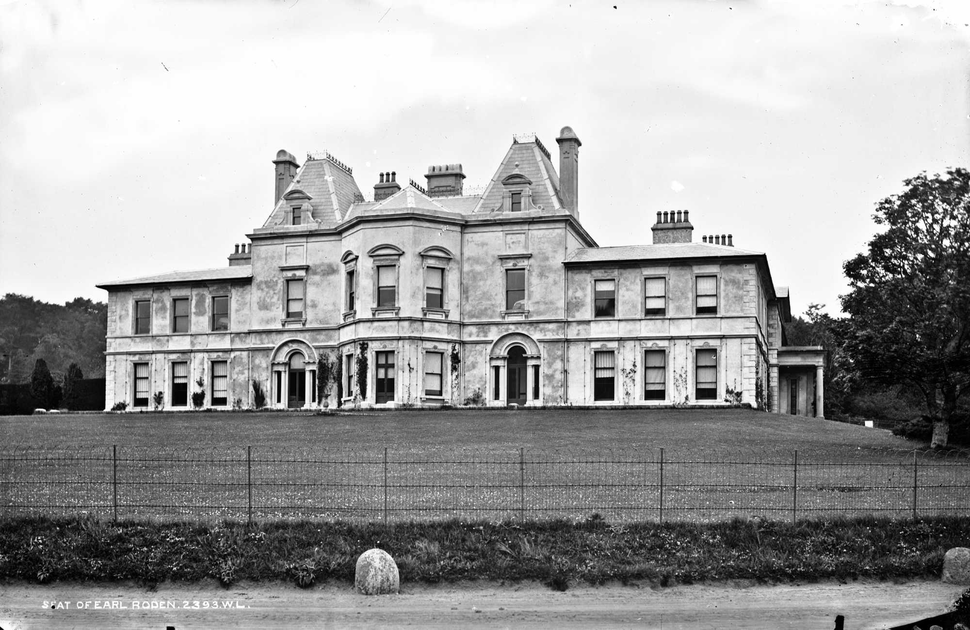 For a dull and wet Thursday morning in Dublin we head up to the "Wee North" today to gather some sunshine in Newcastle! Bryansford House looks like a significant pile with a certain symmetry to its frontage suggesting - almost- a semi-detached building? We learned that this house was the main estate house at Tollymore Park demense - now an NI state forest park of the same name. Originally built for [James%20Hamilton,%201st%20Earl%20of%20Clanbrassil%20(second%20creation) James Hamilton, Earl Clanbrassil] in the 1730s, it was the family seat for several generations of the Earls of Roden, who developed the estate lands. The house itself fell into disrepair and was demolished in 1952. The estate, its forest, follies, barns and bridges (some of which we have visited before) thankfully survive.... Photographer: Robert French Collection: Lawrence Photograph Collection Date: Catalogue range c.1865-1914. Likely after c.1880 NLI Ref: L_CAB_02393 You can also view this image, and many thousands of others, on the NLI’s catalogue at